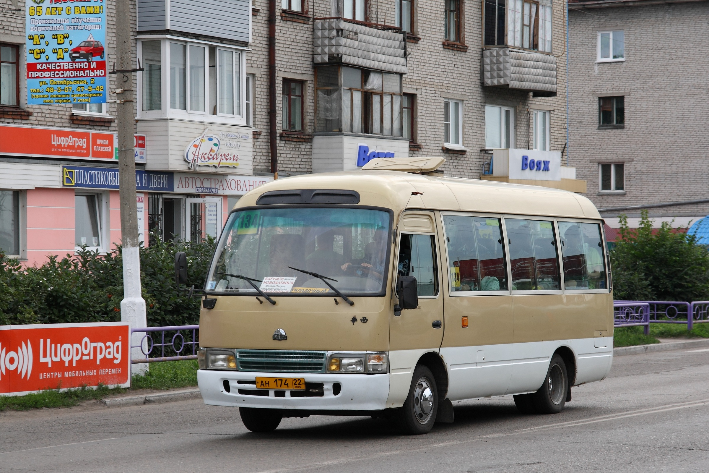 Minibus (marshrutka) in Novoaltaisk, Altai krai, Russia - Huaxi CDL6606A2E